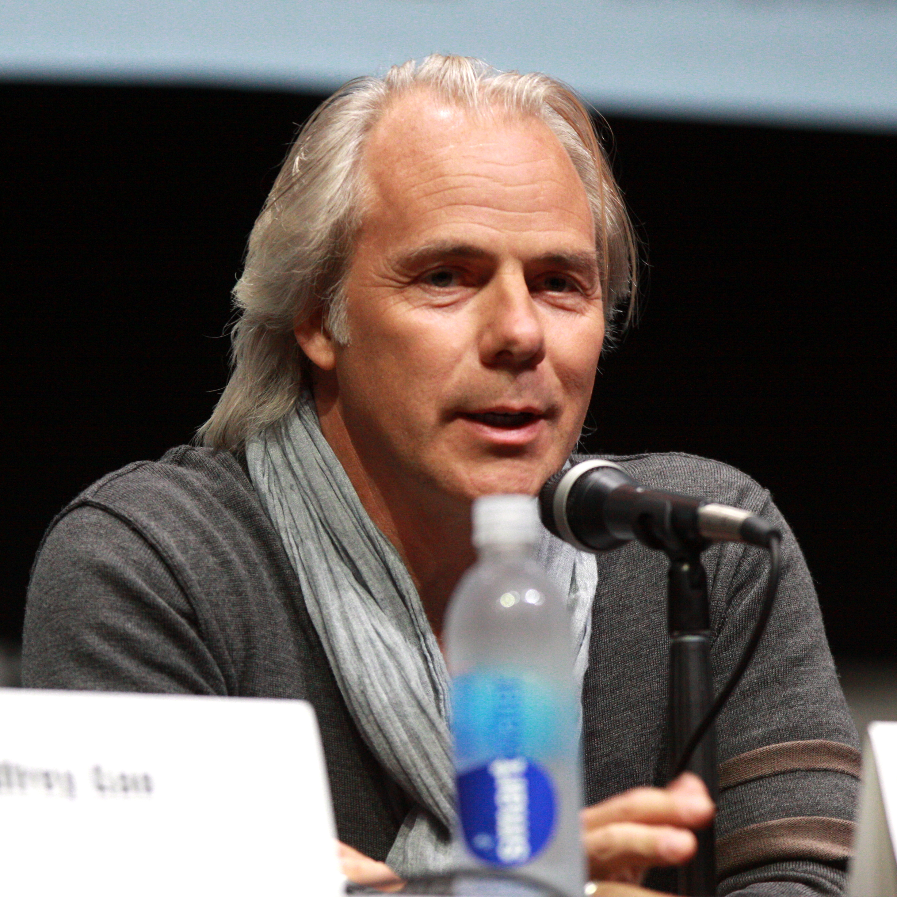 Harald Zwart speaking at the 2013 San Diego Comic-Con International, for The Mortal Instruments: City of Bones, at the San Diego Convention Center in San Diego, California